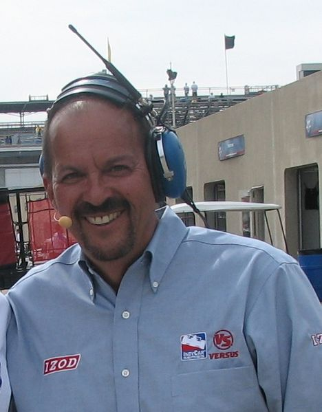 VERSUS' Jack Arute in the garage area at the Indianapolis Motor Speedway for the second day of qualifications for the 2009 Indianapolis 500.